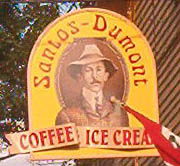 Ice cream made by the Santos Dumont Coffee Company.